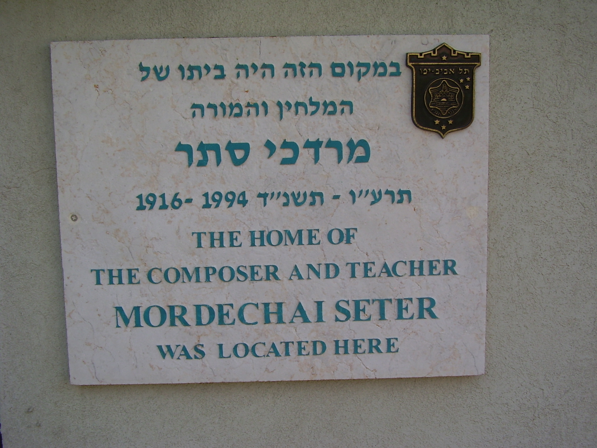 memorial plaque on the house of the composer mordechai seter intel aviv לויחת זיכרון על ביתו של המלחין מרדכי סתר ברח' קרני 1 בתל אביב